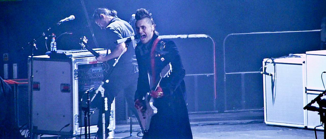 Thirty Seconds to Mars performing in Manchester, 20th February 2010.